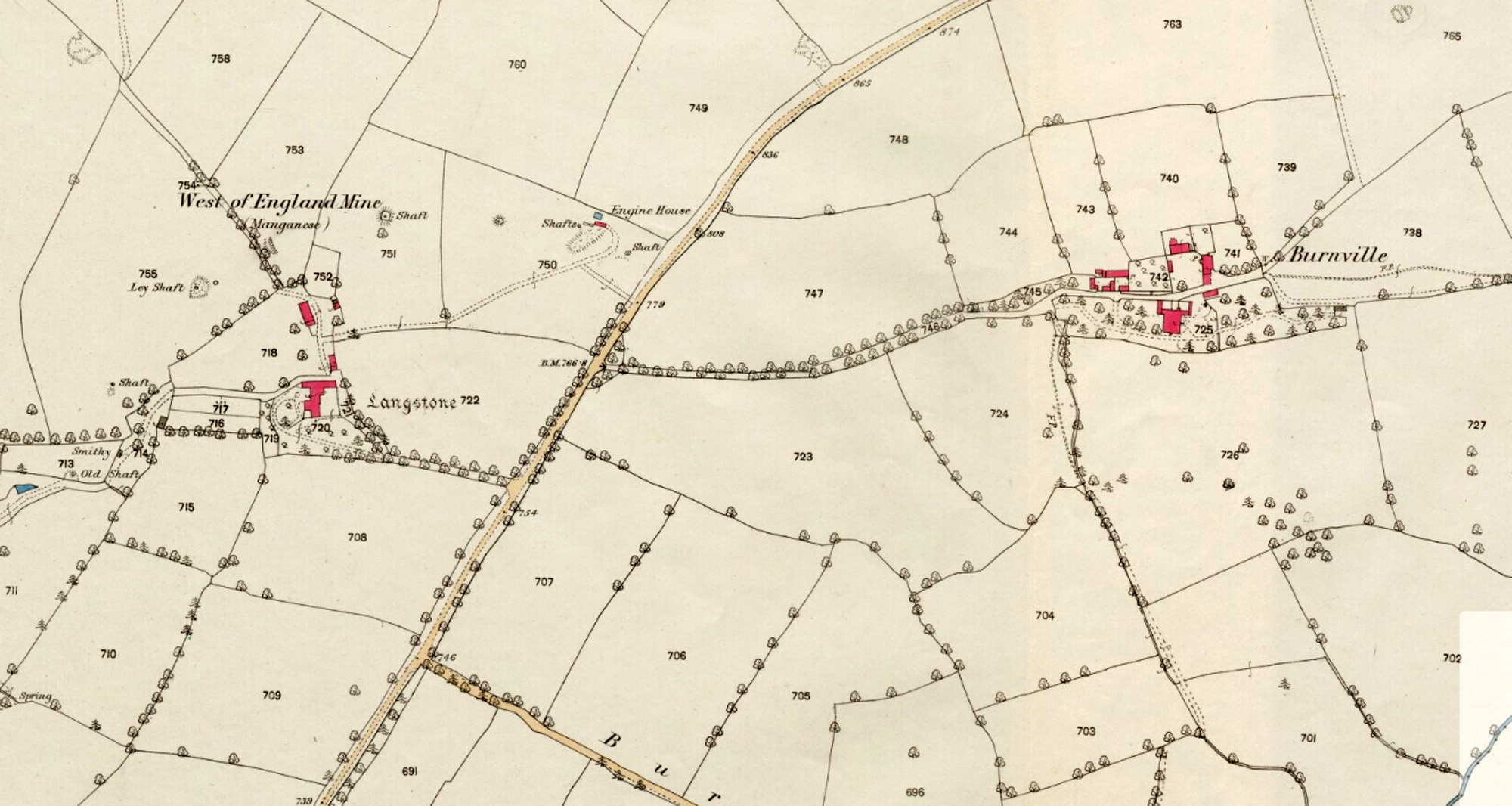 Map of Burnville House, Brentor 1883